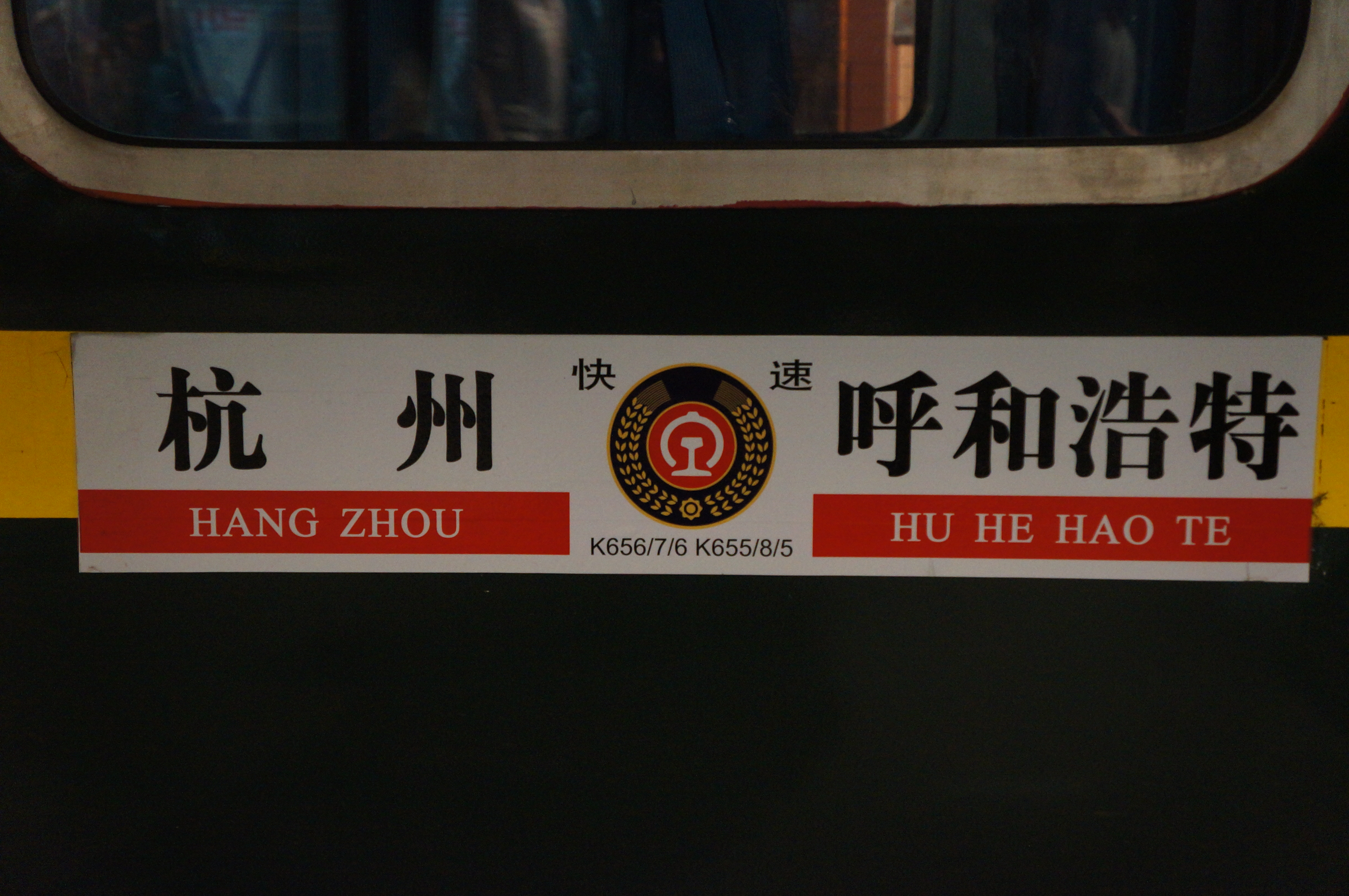 Taken at Hangzhou Station